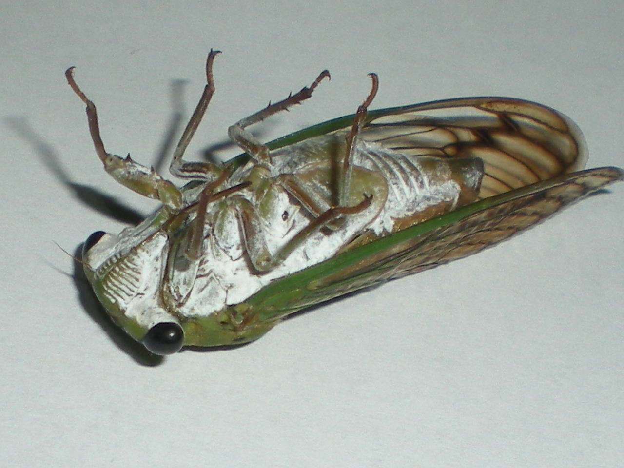 A white waxy powder called pruinescence clearly visible on a cicada.